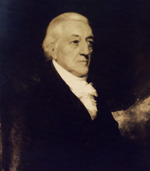 Photograph of oil painting of Henry Rutgers